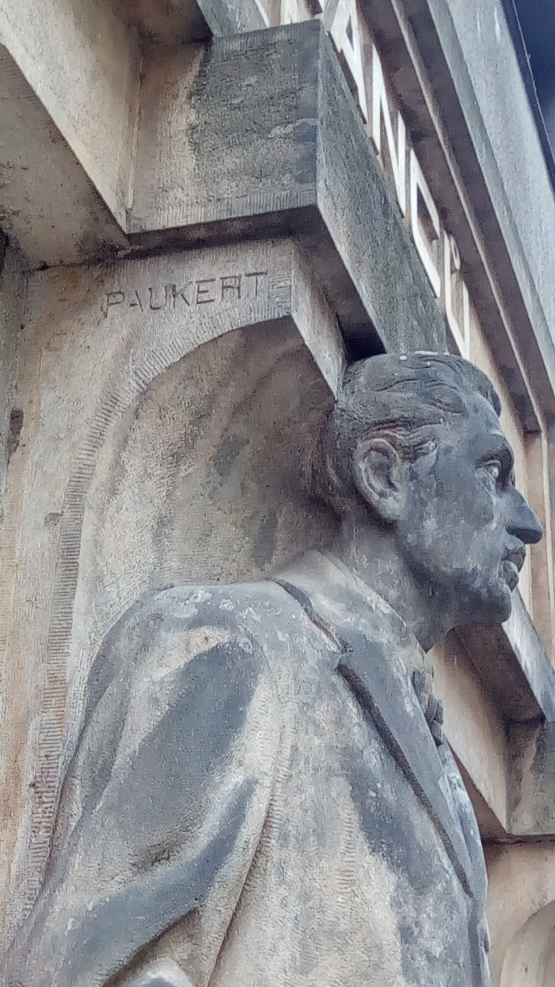 Josef Augustin Paukert, Deatail of the statue of a clerk with a sculptor's signature, the building in Prague - New Town, Dittrichova street Num.337